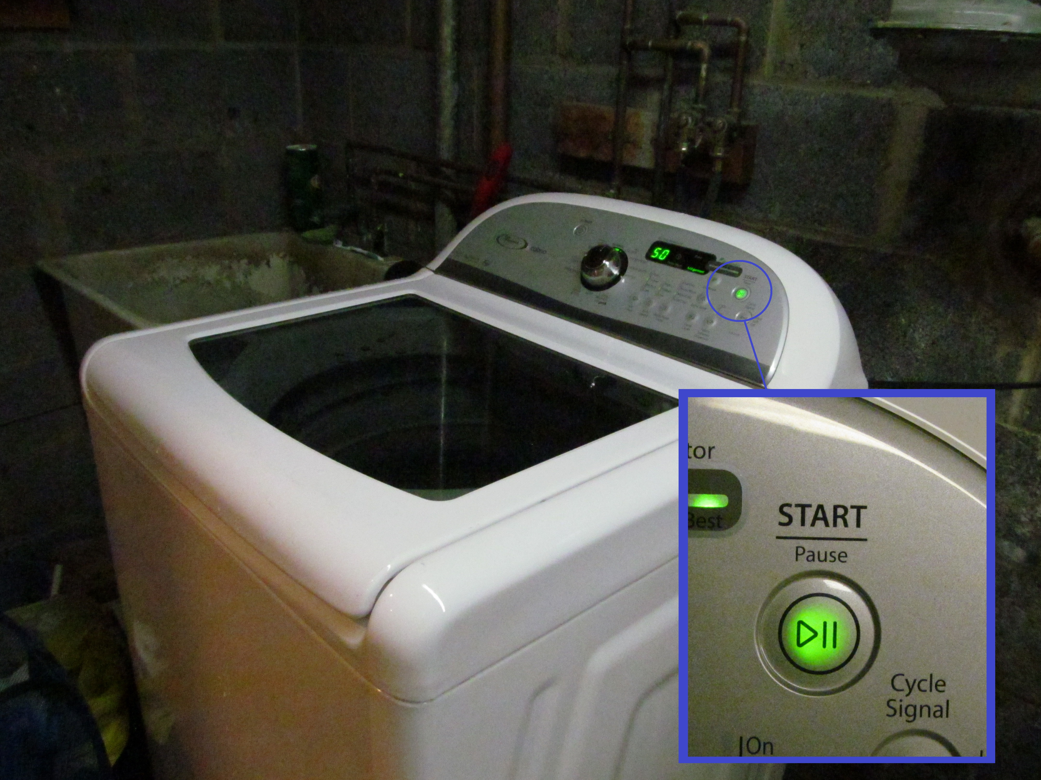 The image is of a basement washing machine with an insert showing an illuminated play pause button. This picture is an example of how media symbols are now used on appliances.